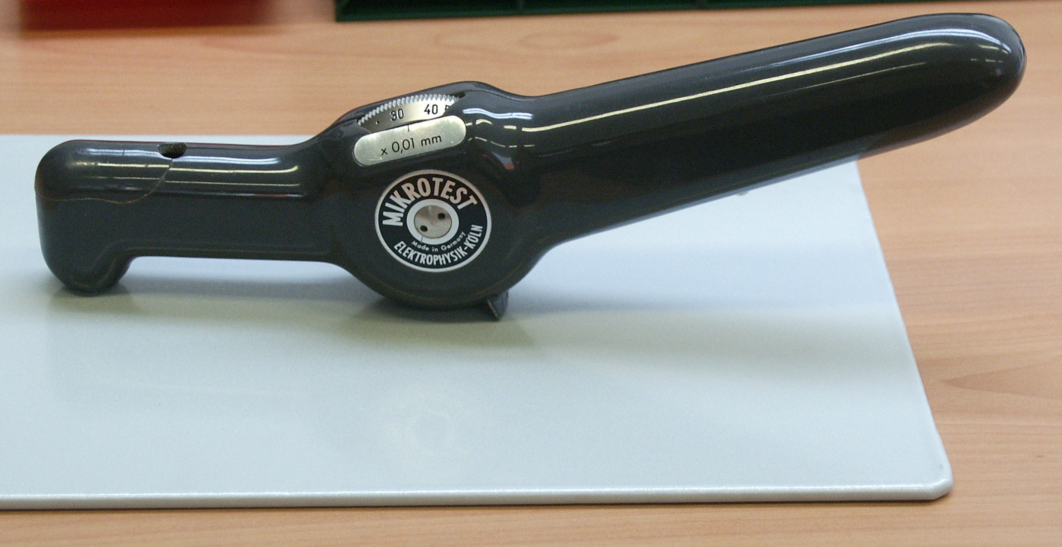 MikroTest® film-thickness testing device, magnetic operating principle